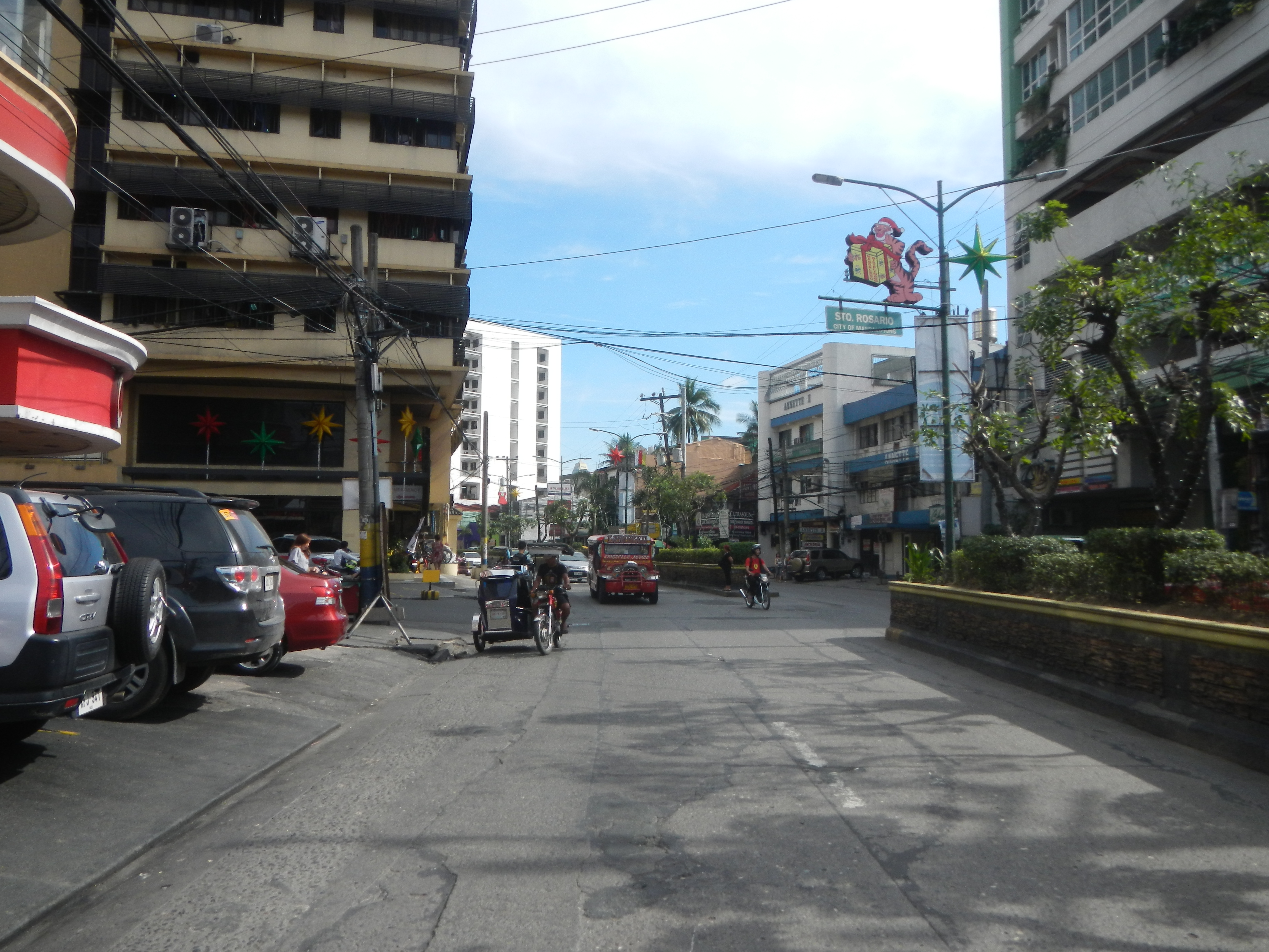 Mandaluyong City along Boni Avenue (Mandaluyong) 14°34'36"N 121°2'5"E Boni Avenue List of barangays of Metro Manila, Barangay Maligaya Barangay Barangka Ilaya 14°34'21"N 121°3'2"E Plainview 14°34'36"N 121°2'6"E Mandaluyong City Landmarks include Boni Avenue, Plainview 14°34'34"N 121°2'7"E Mandaluyong City Hall Complex (Maysilo Circle) 14°34'38"N 121°2'1"E Bantayog ng Kabataan 14°34'40"N 121°2'5"E Kaban ng Hiyas, Justice Hall (Mandaluyong City) Kaban ng Hiyas14°34'41"N 121°2'2"E City cultural center, historical museum and convention hall Neptali Gonzales Monument statue museum (Note: Judge Florentino Floro, the owner, to repeat, Donor Florentino Floro of all these photos hereby donate gratuitously, freely and unconditionally all these photos to and for Wikimedia Commons, exclusively, for public use of the public domain, and again without any condition whatsoever).